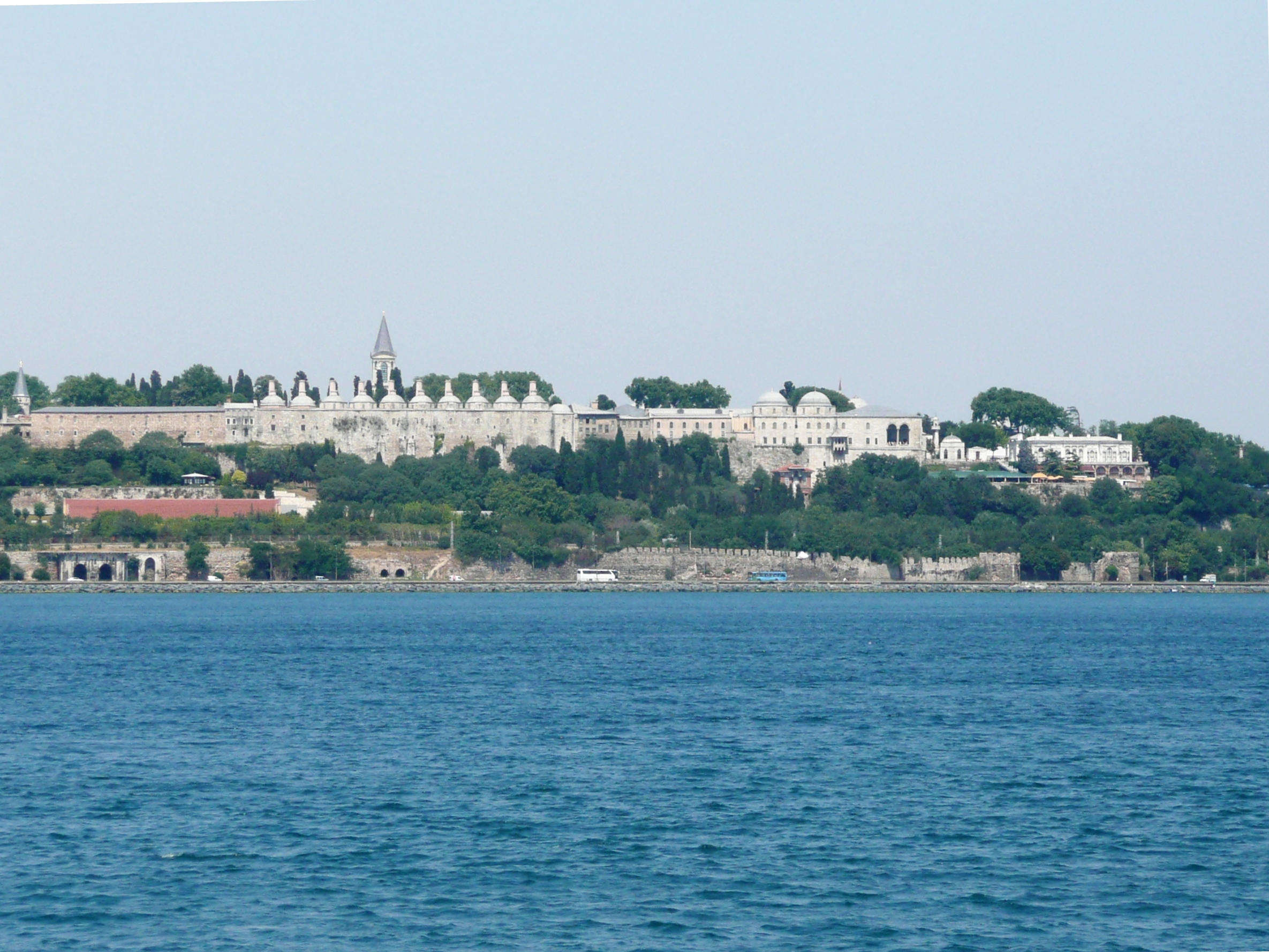 Image of the Topkapi Palace seen from the sea.